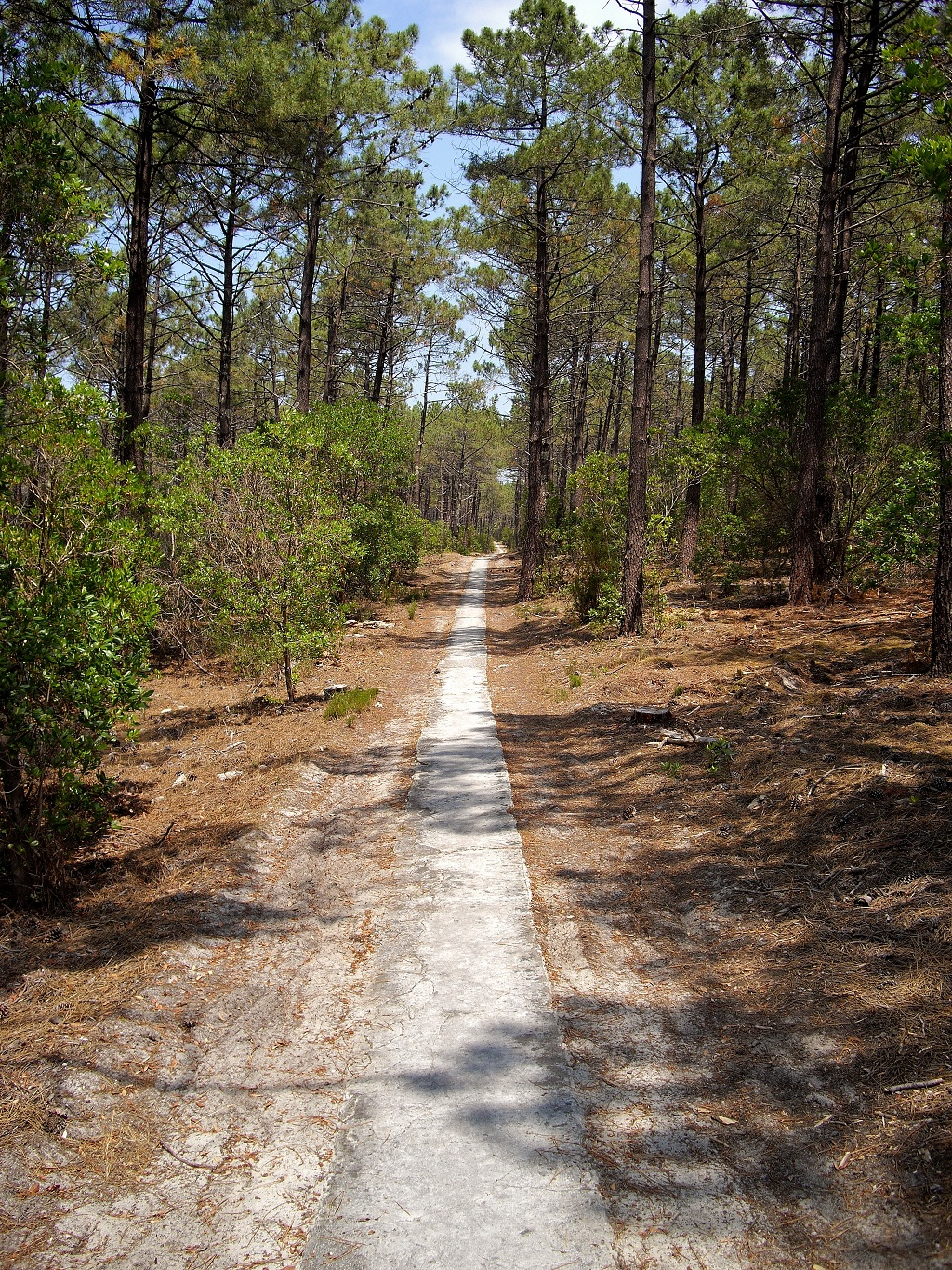 Cycle path among the coastal pine forest in Médoc connecting the seaside resorts of Carcans and Lacanau, part of EuroVelo 1 in France.